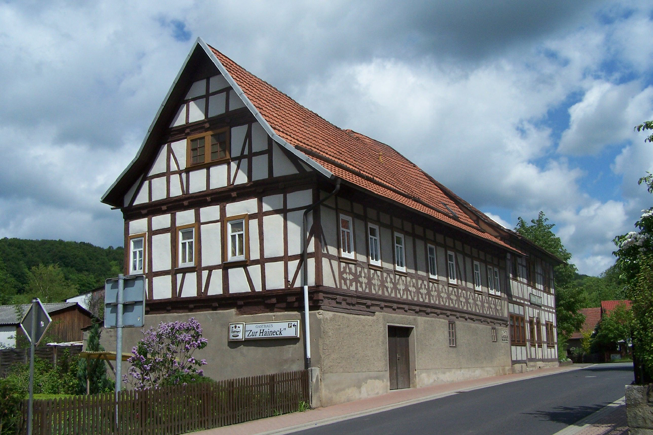 The main building of a former castle in Nazza.